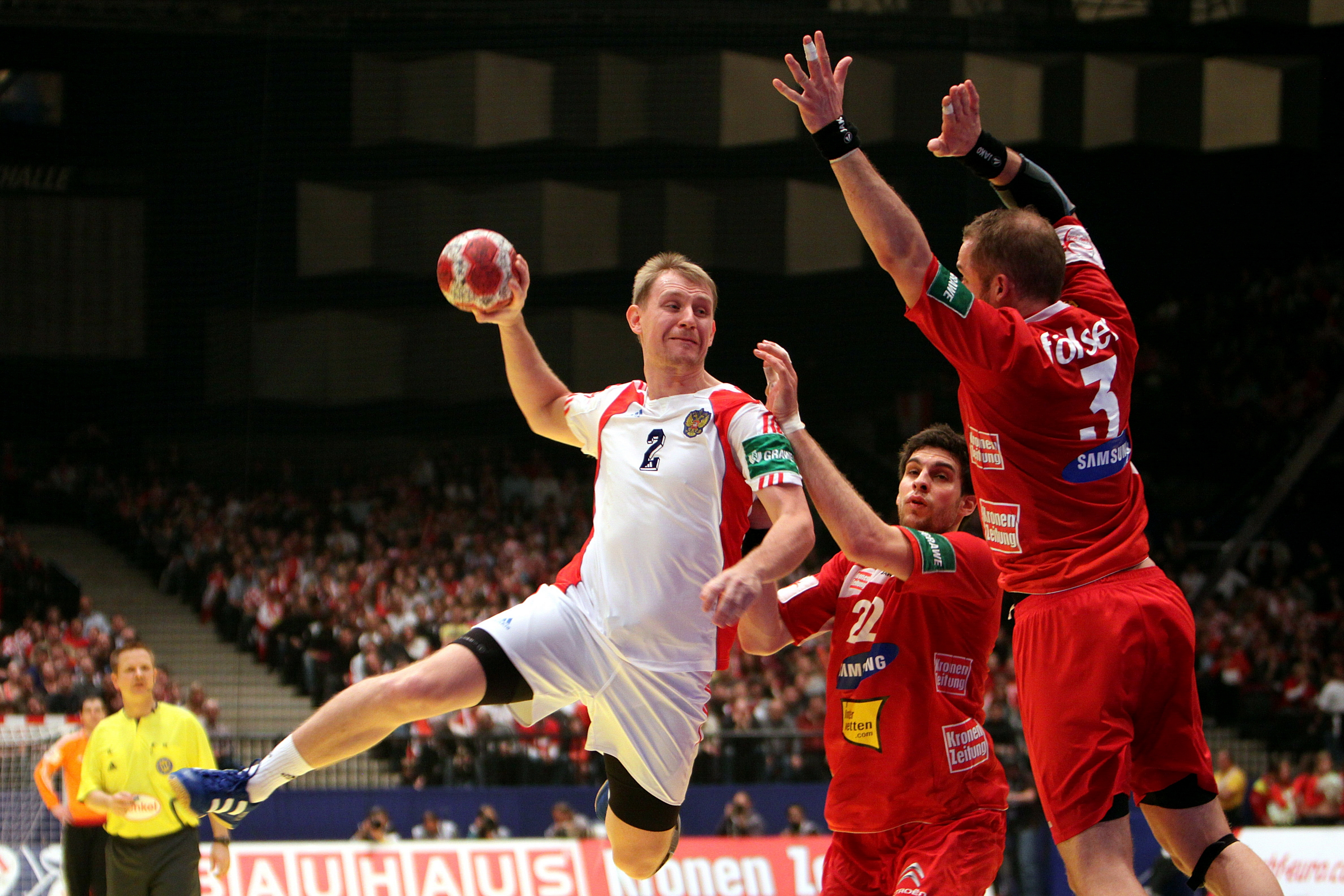 2010 European Men's Handball Championship Group I: Russia vs Austria 30:31 — Wassili Filippow (Russia national handball team) sets to the throw. Markus Wagesreiter (Austria national handball team) comes too late and Patrick Fölser tries to block.